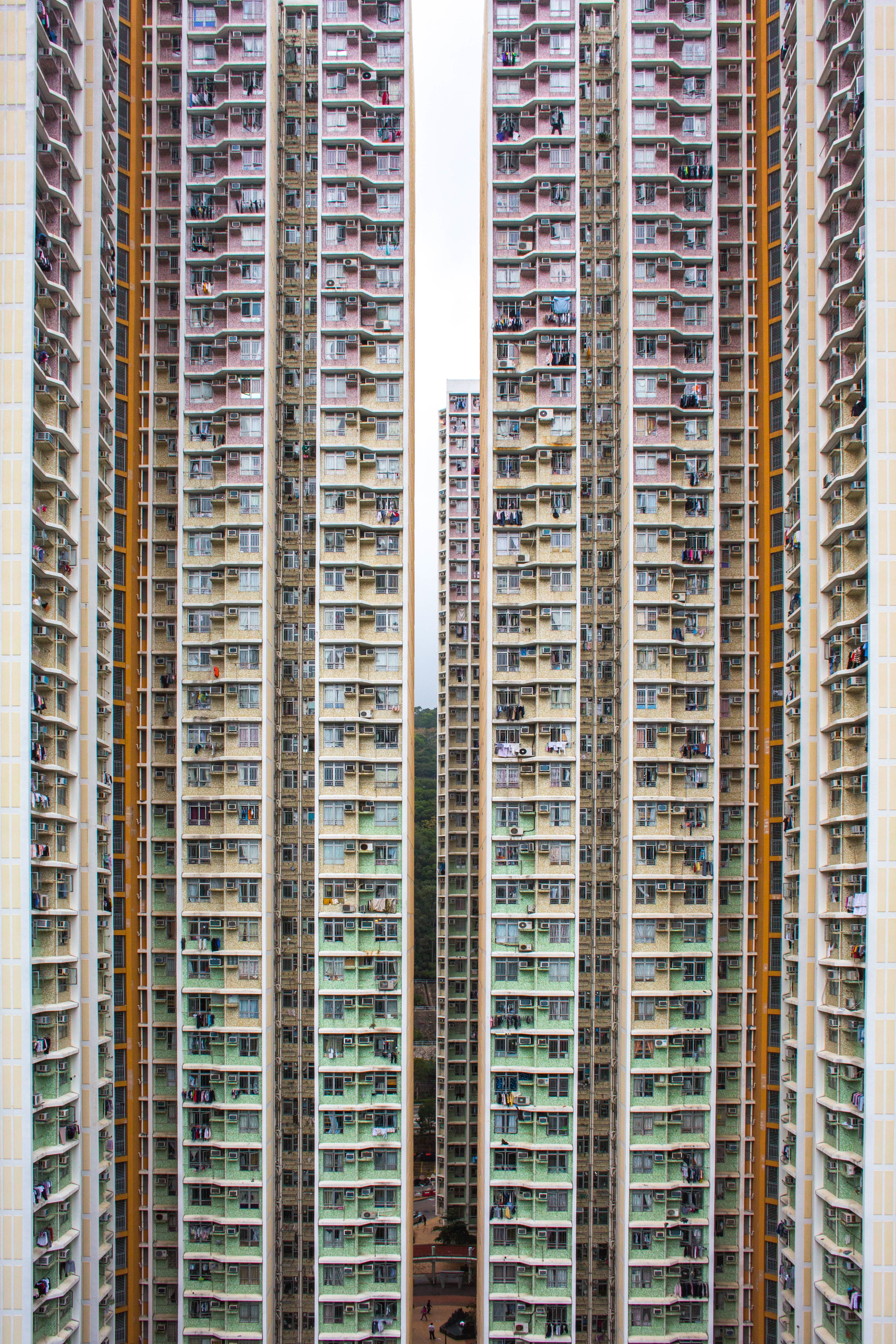 Hong kong skyscrapers